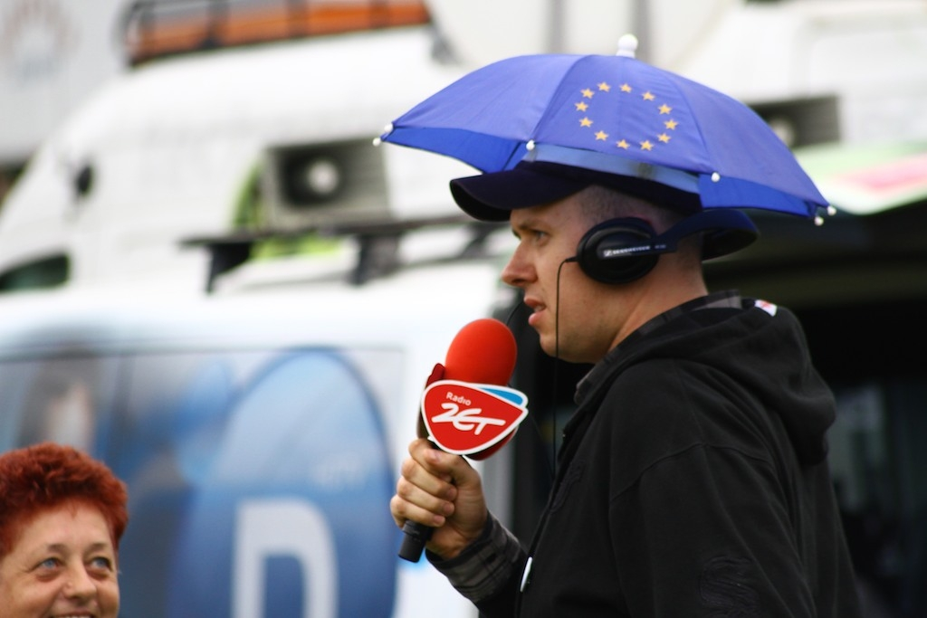 Marcin Wojciechowski and umbrella